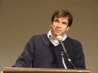 A.J. Jacobs at book signing in Detroit, Michigan on November 15 2007. Self-made.